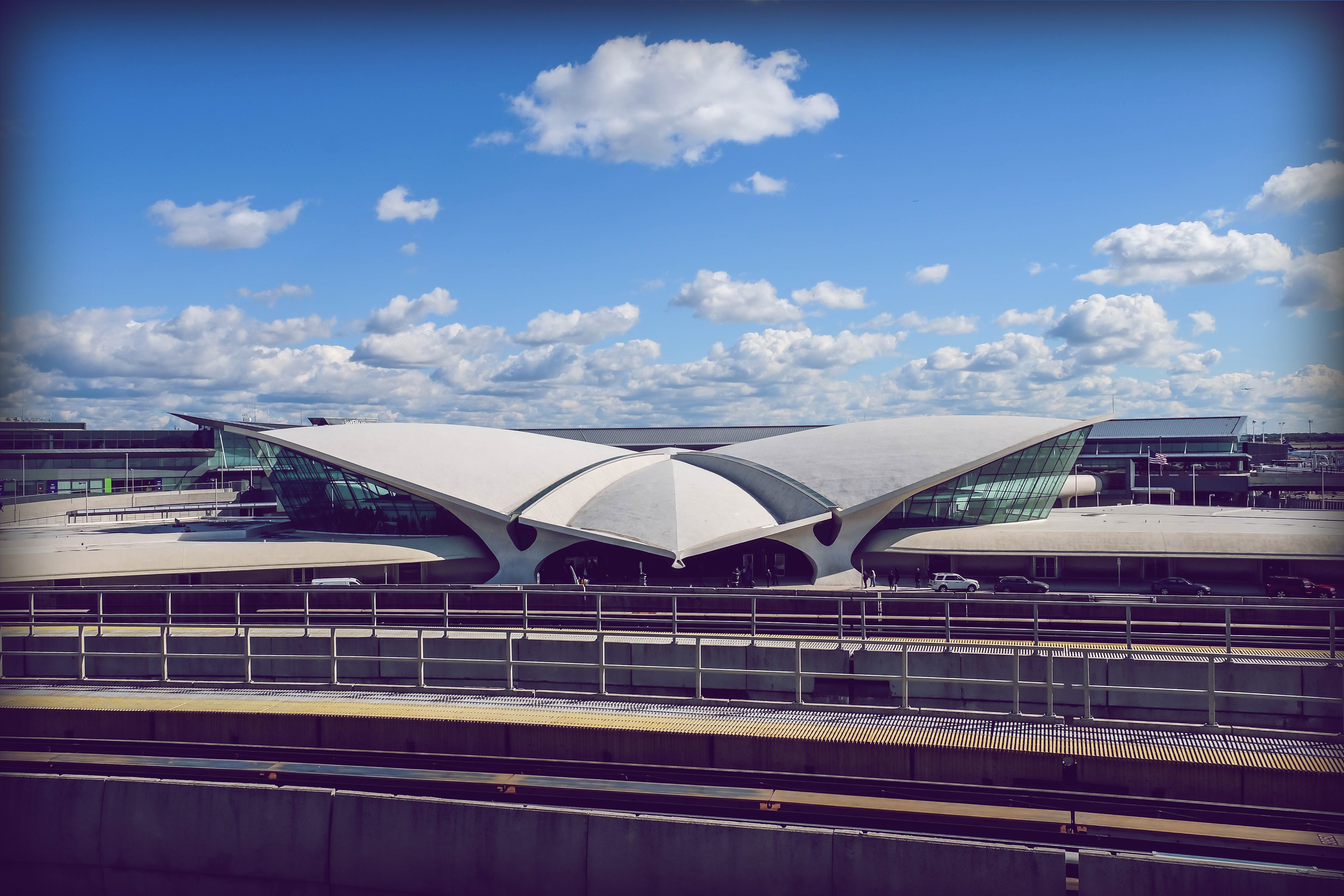 A view of the entire terminal.Site: TWA Terminal